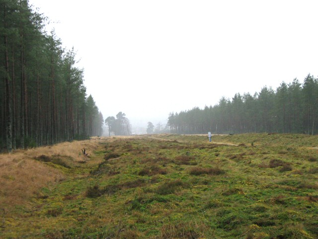 The Cleaven Dyke, a neolithic monument, runs through the woods north of Meikleour